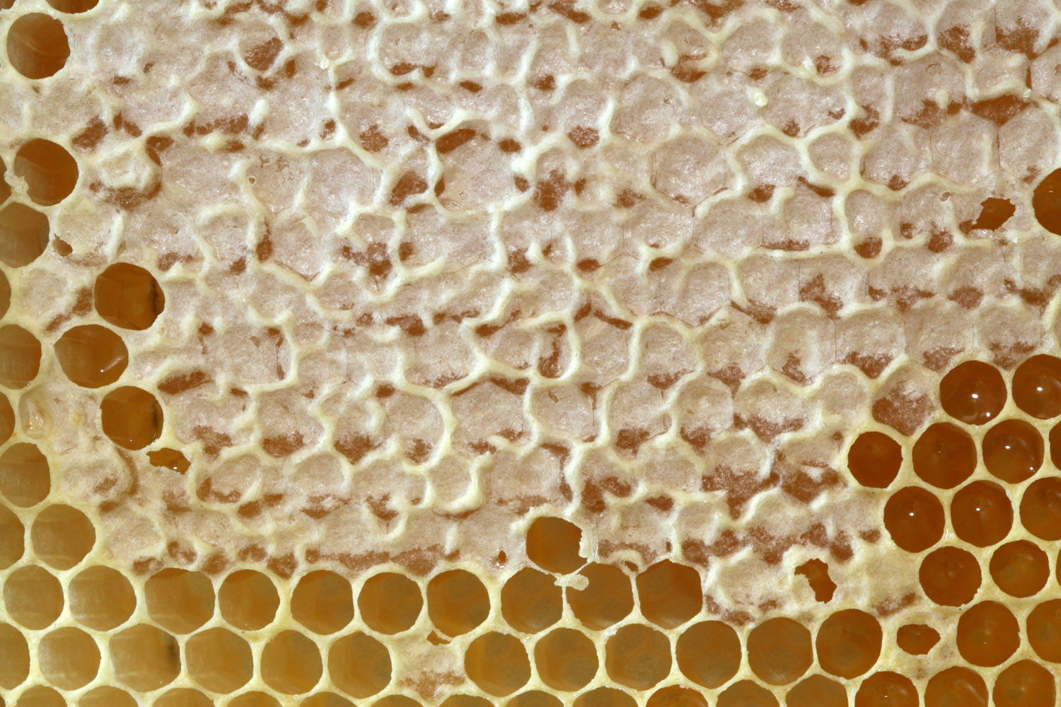 Honeycomb full of honey with capped cells